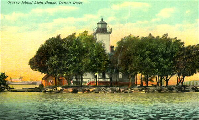 Grassy Island Light House, Detroit River Built in 1849 [1] Uploaded to English Wikipedia: 16:06, December 10, 2009 (635 × 384 (450 KB) User:Notorious4life Other versions of this postcard at Southwestern Ontario Digital Archive: [2], mailed 1912 Detroit Public Library: Digital Collections [3], postmarked July 21, 1914.